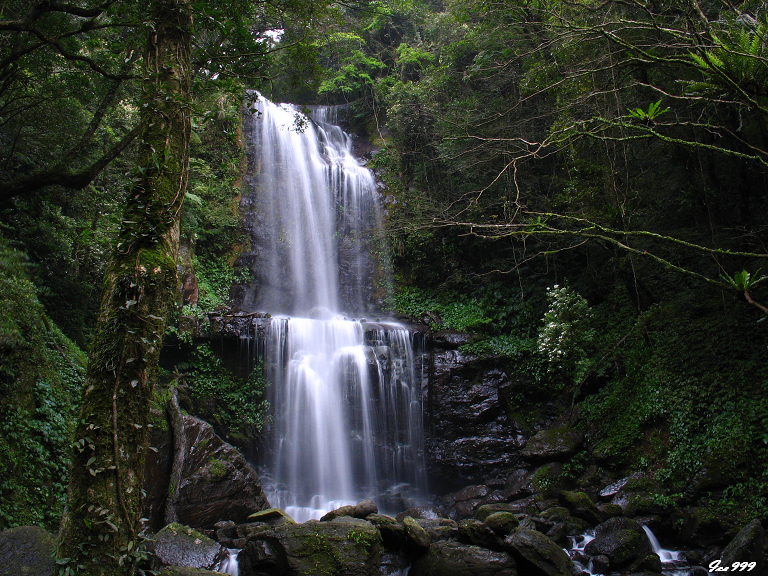 Yun-Sen Waterfall at Sanxia,Taipei County, Taiwan.